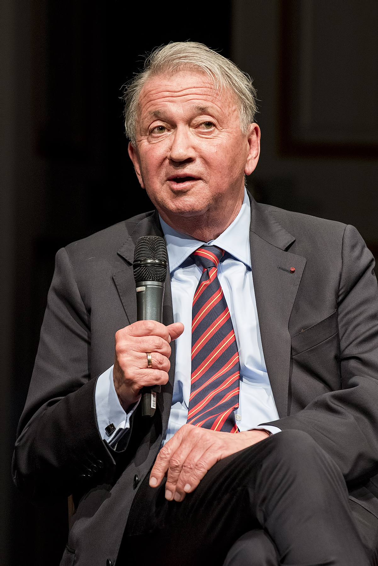 International Peace Institute President Terje Rød-Larsen in conversation after a special performance of "OSLO" hosted by IPI. Photo credit: International Peace Institute.